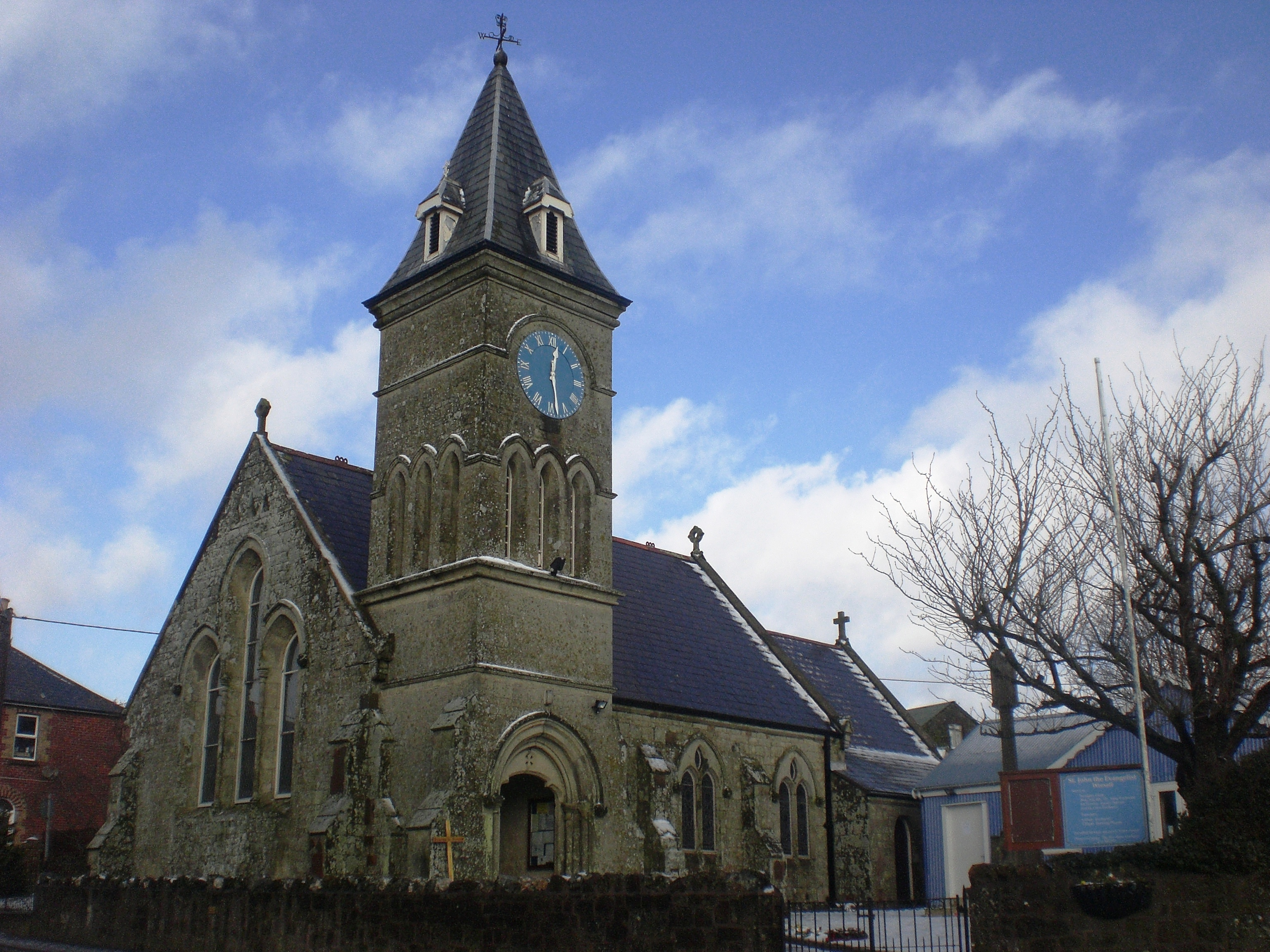 St John the Evangelist parish church, Wroxall, Isle of Wight